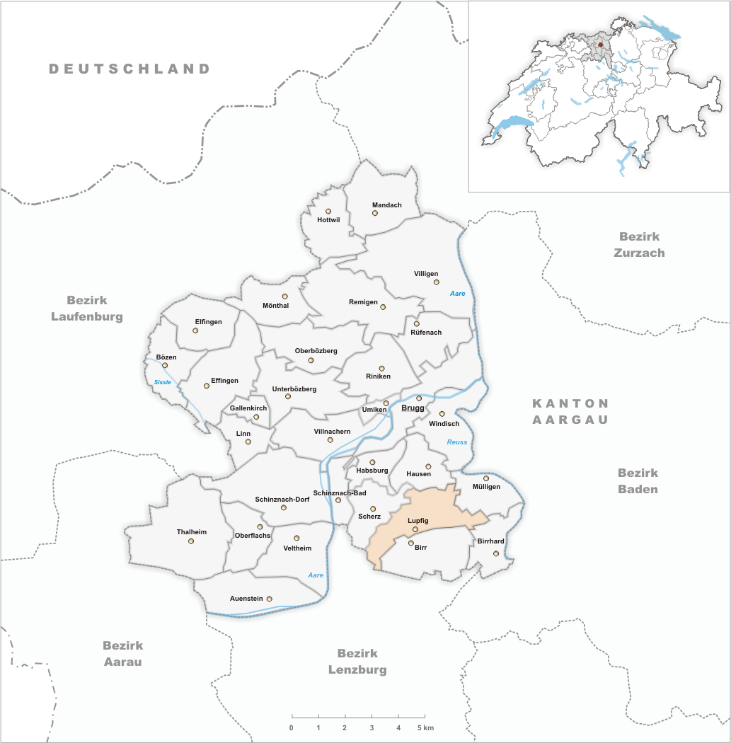 Municipality Lupfig